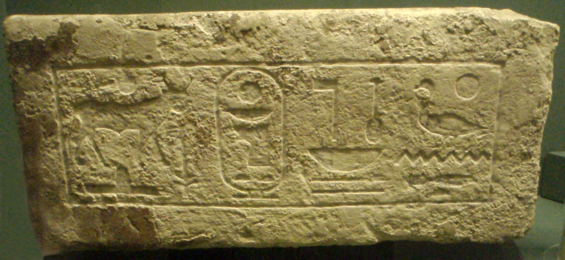 Cartouche from a monument of Ahmose I. Early 18th dynasty.part of the lintel: (2nd column from right)"...ntr-nfr--nb-taui""...Pharaoh(God)-nfr--Lord-of-(the)Two-Lands." The Two Lands, are Upper Egypt-(south), and Lower Egypt-(north, the Delta, etc.).